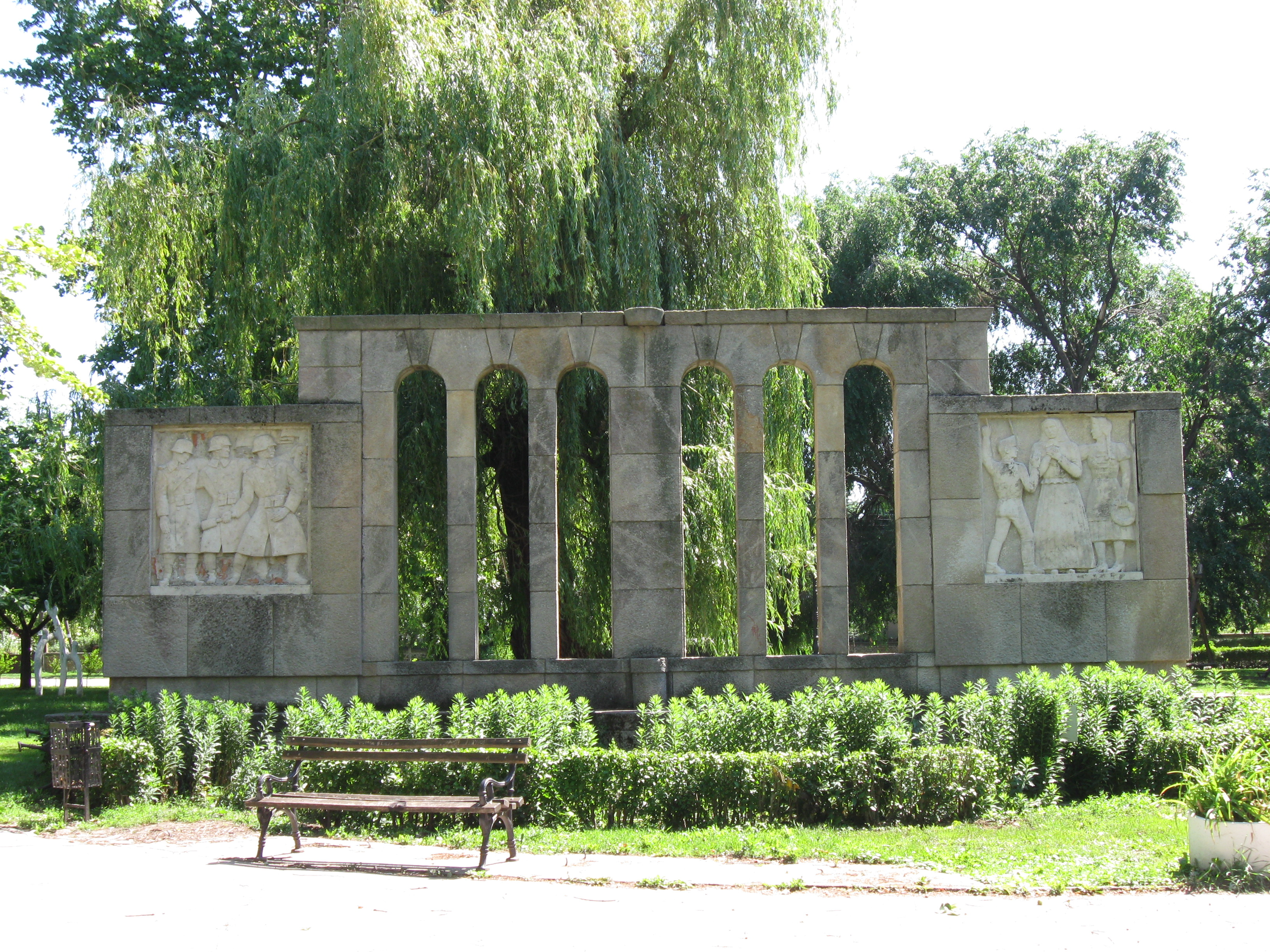 monumnet